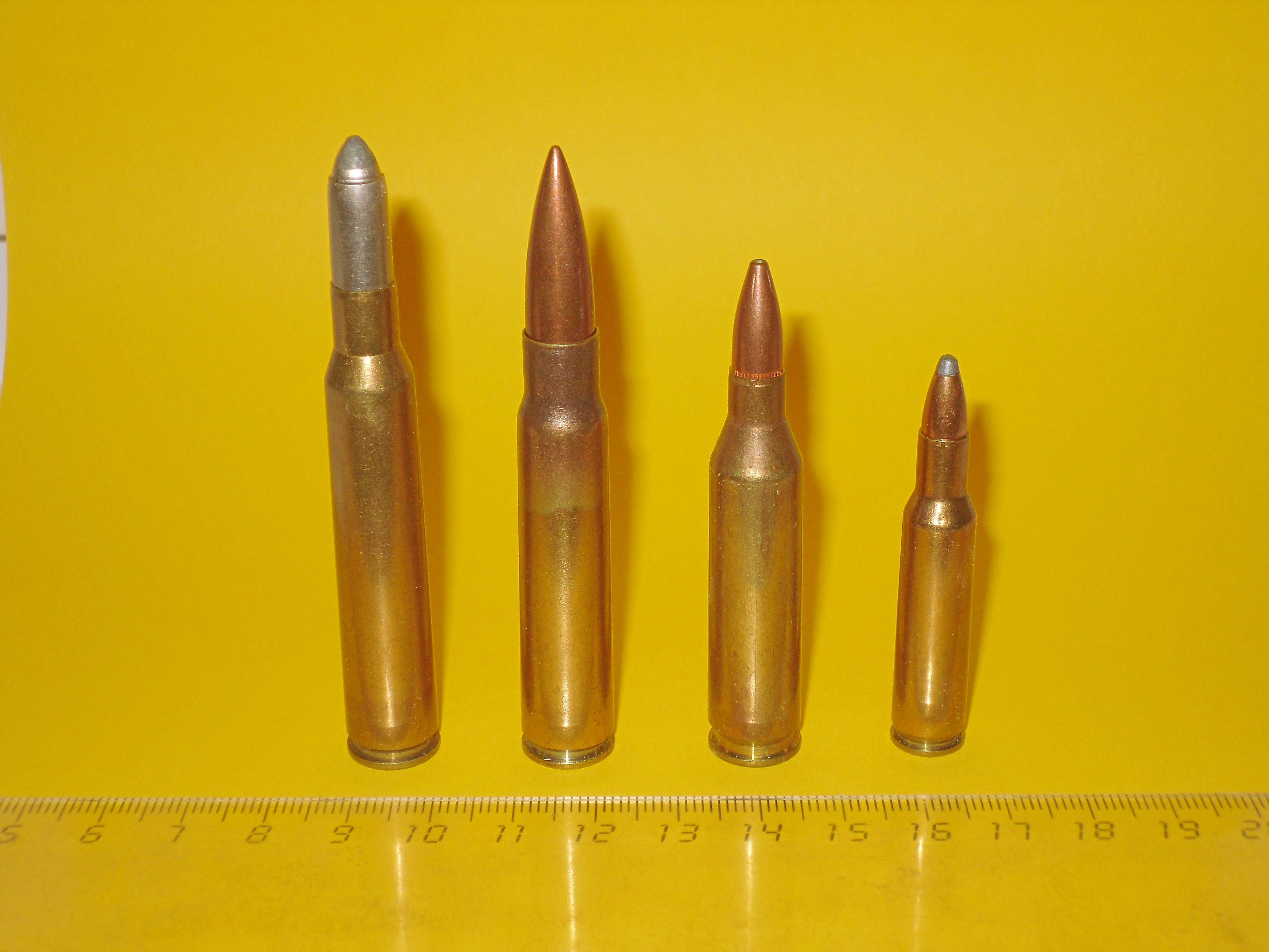 Comparison of rifle cartriges with cm/mm scale. From left to right: From left to right 7x64mm, 7.92x57mm Mauser, .243 Winchester and .222 Remington